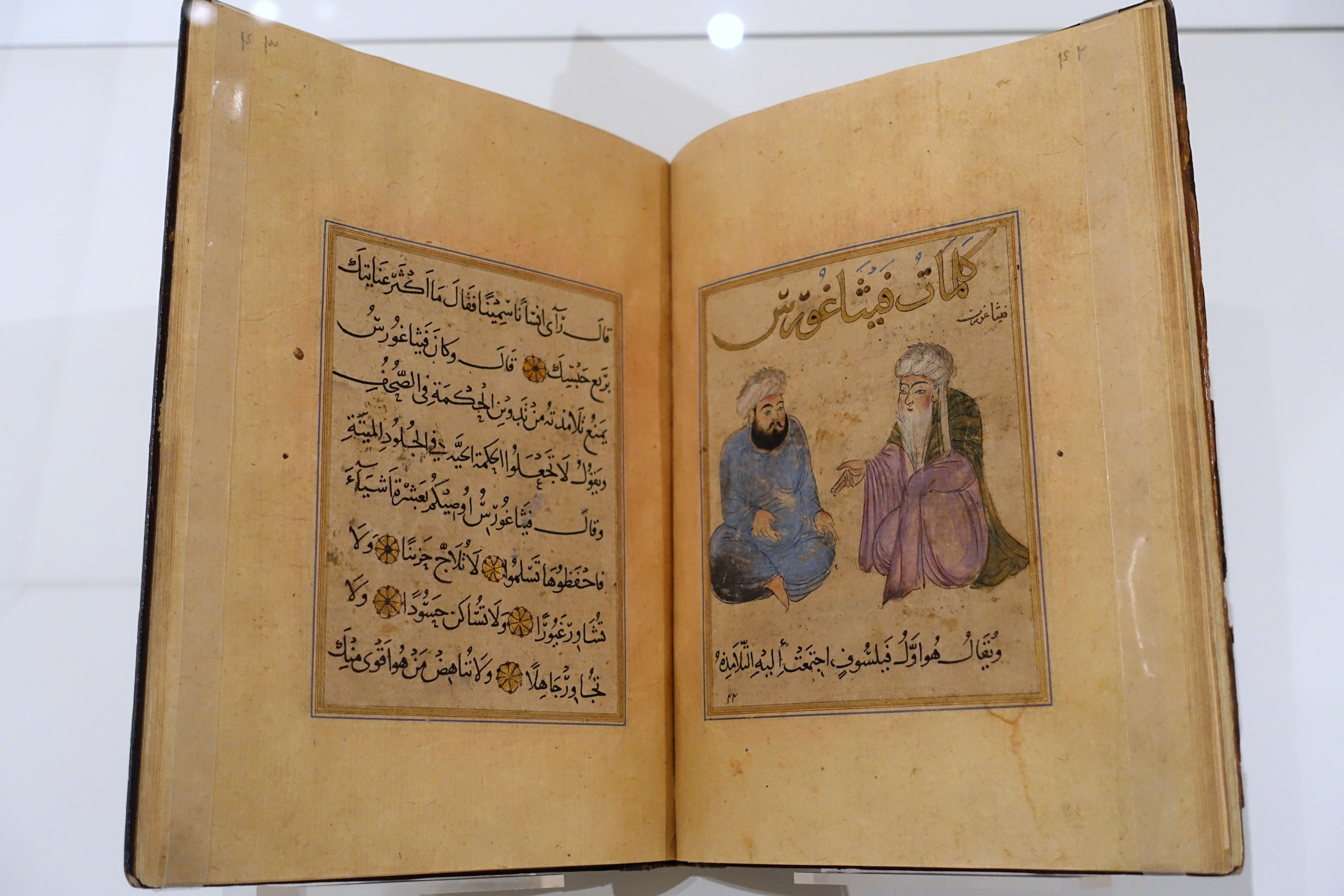 Exhibit in the Aga Khan Museum - Toronto, Canada. This work is old enough so that it is in the public domain.